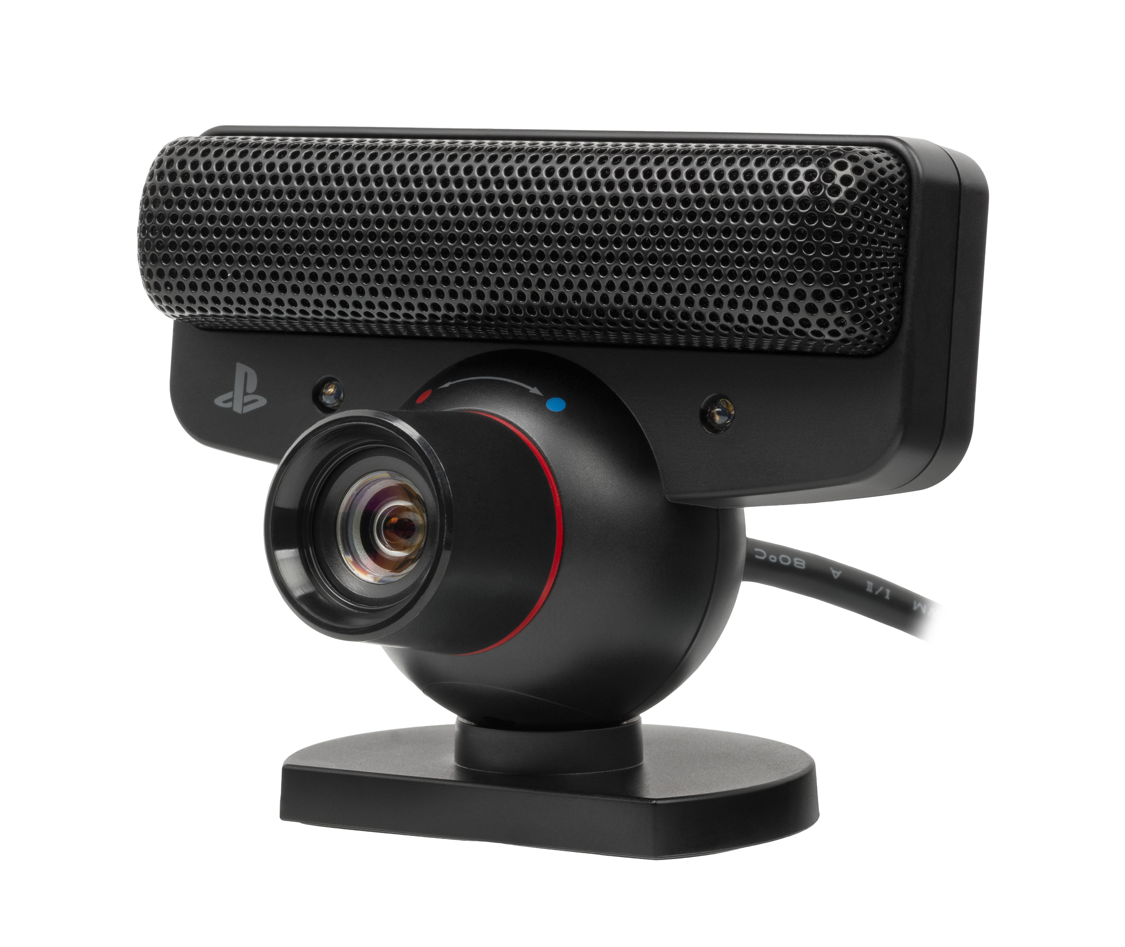 The PlayStation Eye camera. A motion-tracking camera for the PlayStation 3 meant to be used in conjunction with the PS Move system.